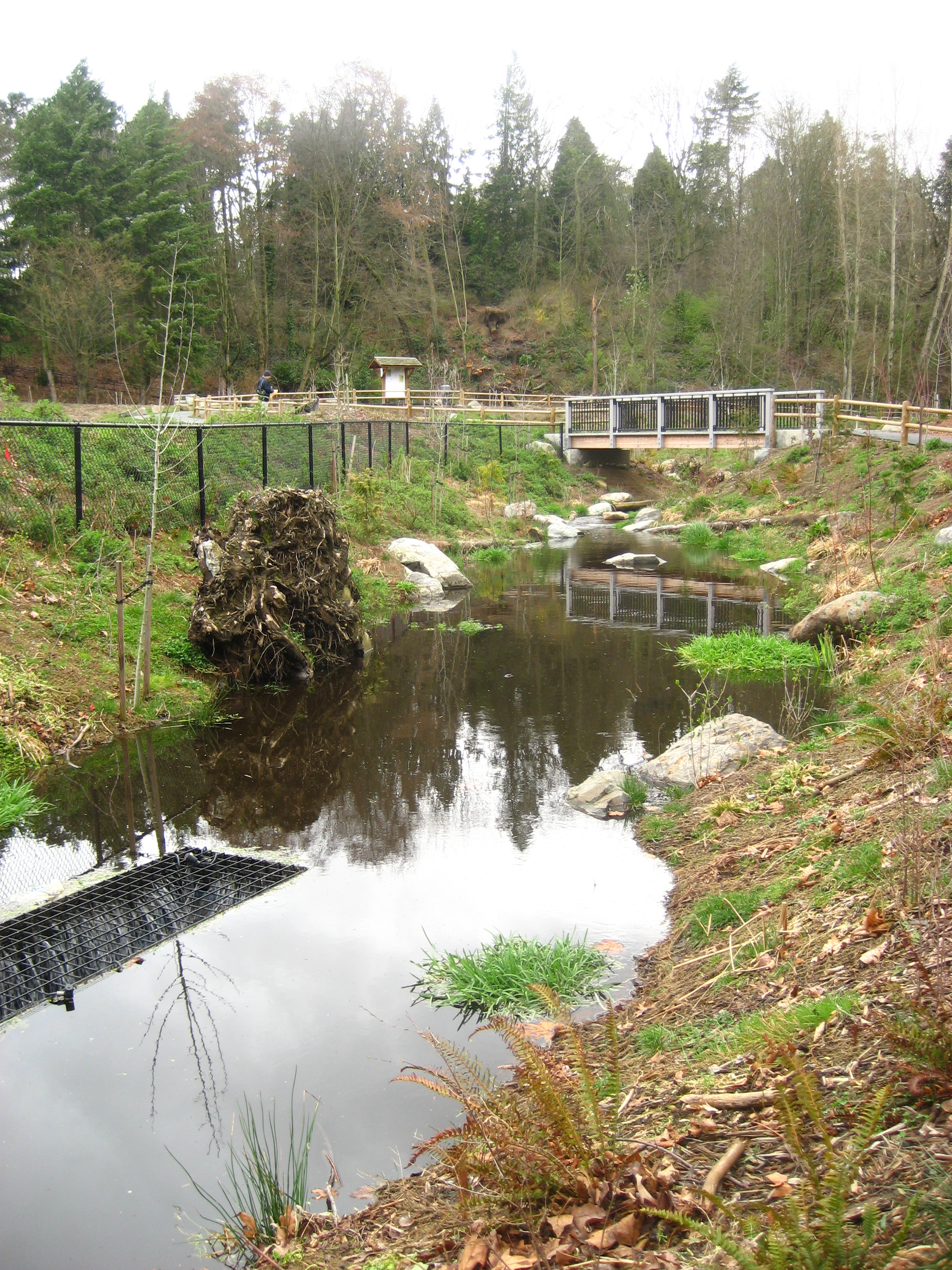 Daylighted Creek at Recreation Fields, Ravenna Park, Seattle, Washington, U.S.